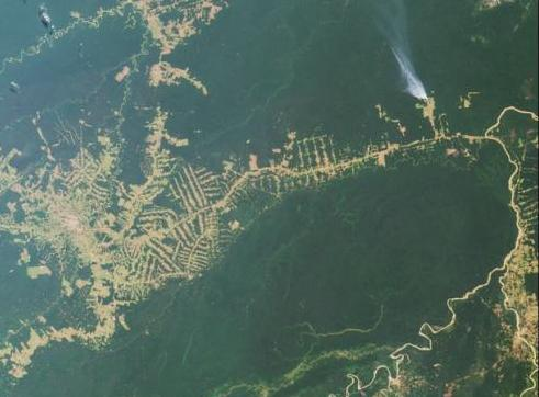 Rio Branco (left) and the BR-364 highway in 2000. A smoke plume is visible to the north of the highway.